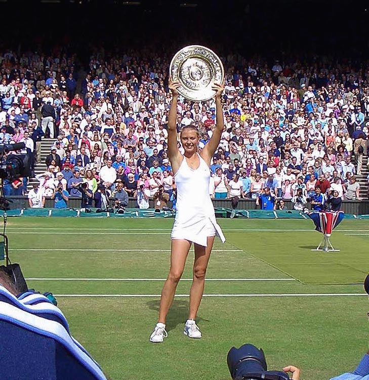 Maria Sharapova celebrates her first Wimbledon title.